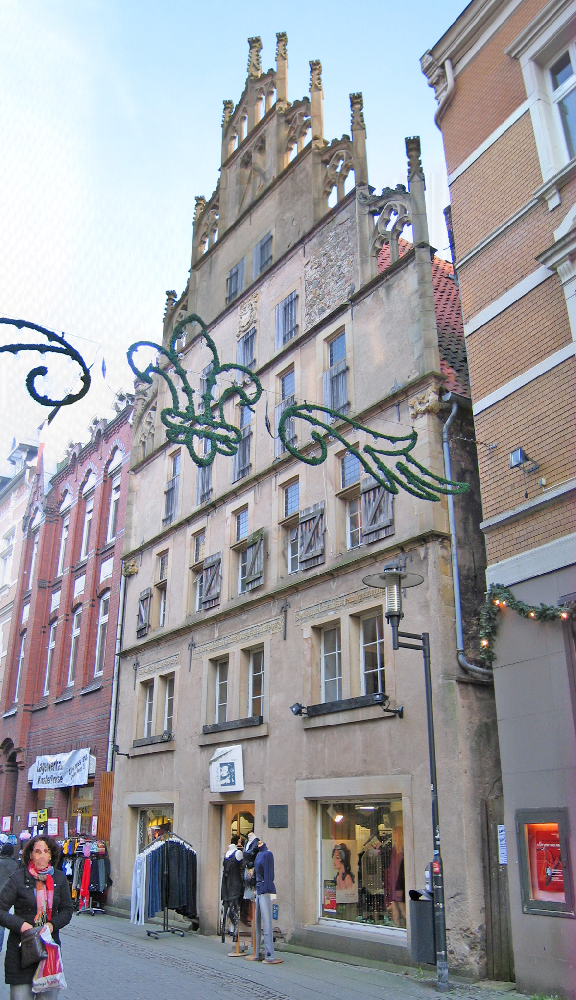 "Mayor's house in Herford, District of Herford, North Rhine-Westphalia, Germany.